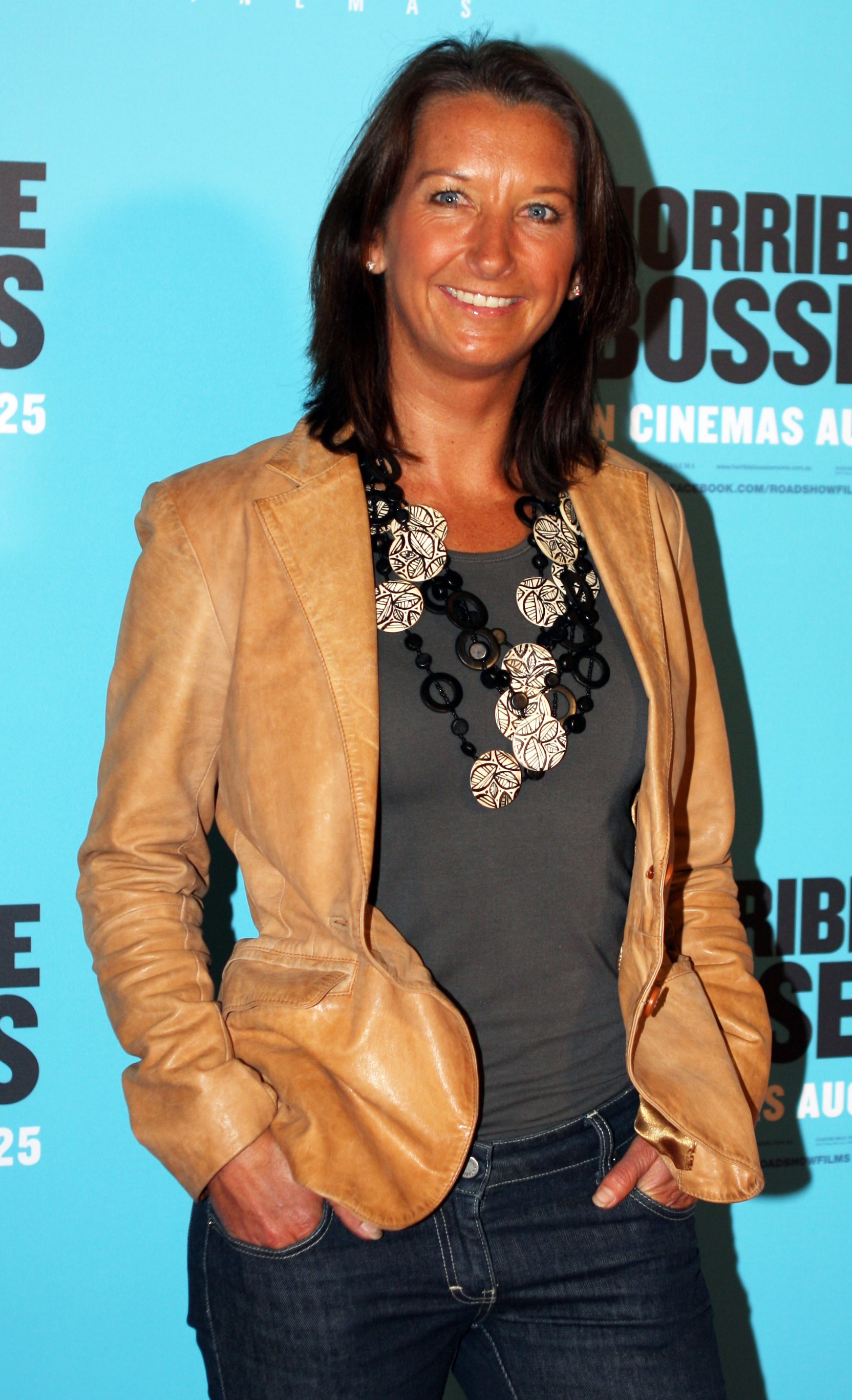 Layne Beachley at the film premiere of Horrible Bosses.